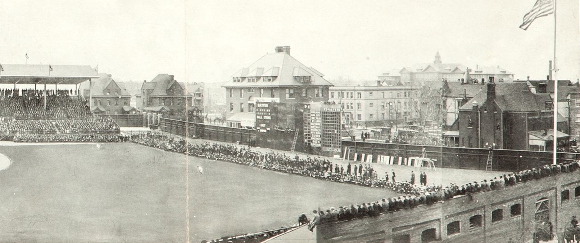 Postcard image of Weeghman park taken in April 1914